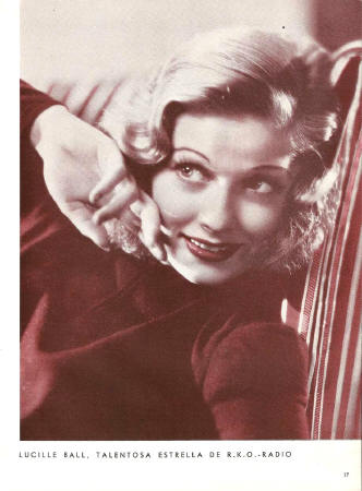 Publicity photo of Lucille Ball for Argentinean Magazine. (Printed in USA)